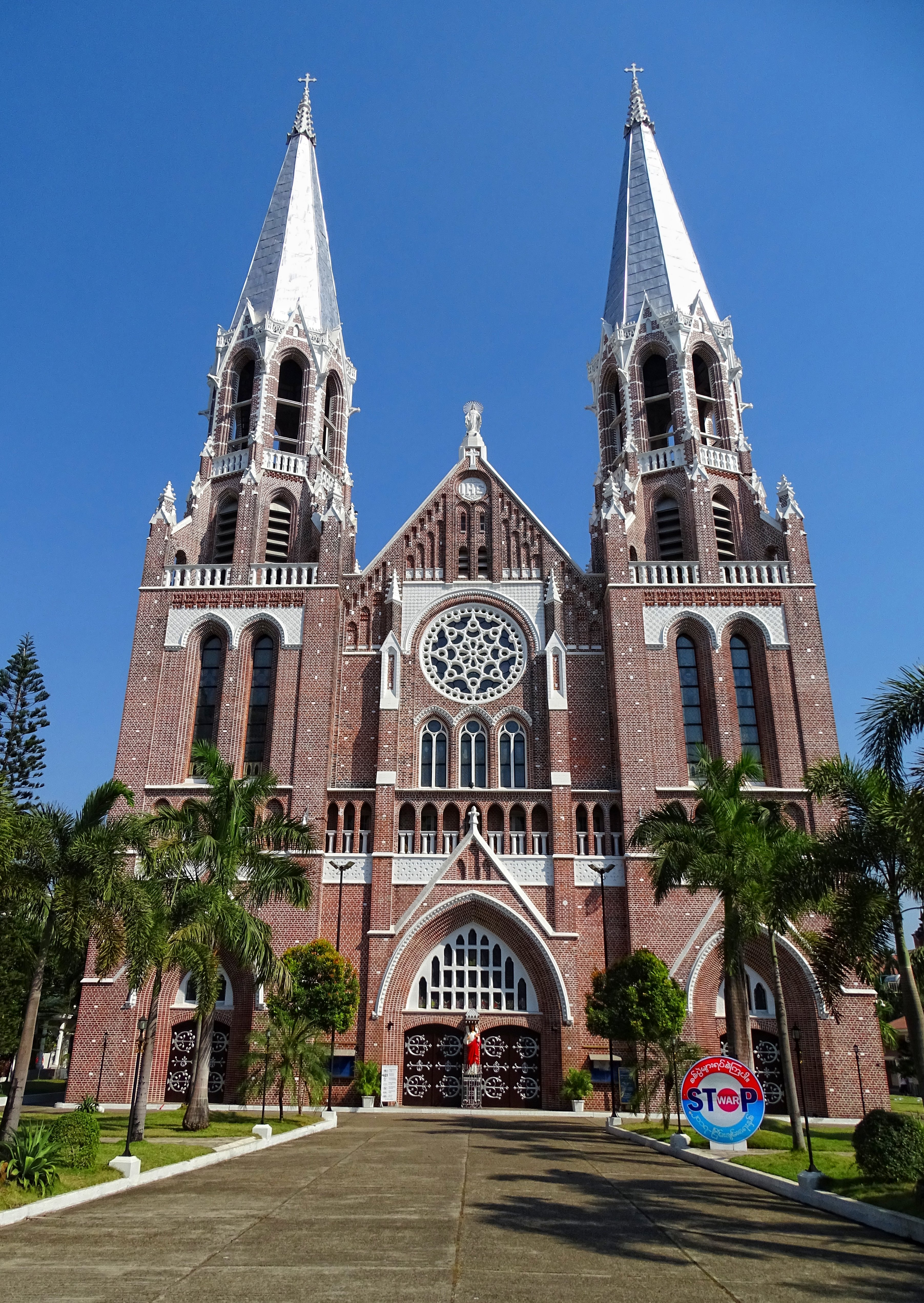 The facade of St. Mary's Cathedral in central Yangon, Myanmar.